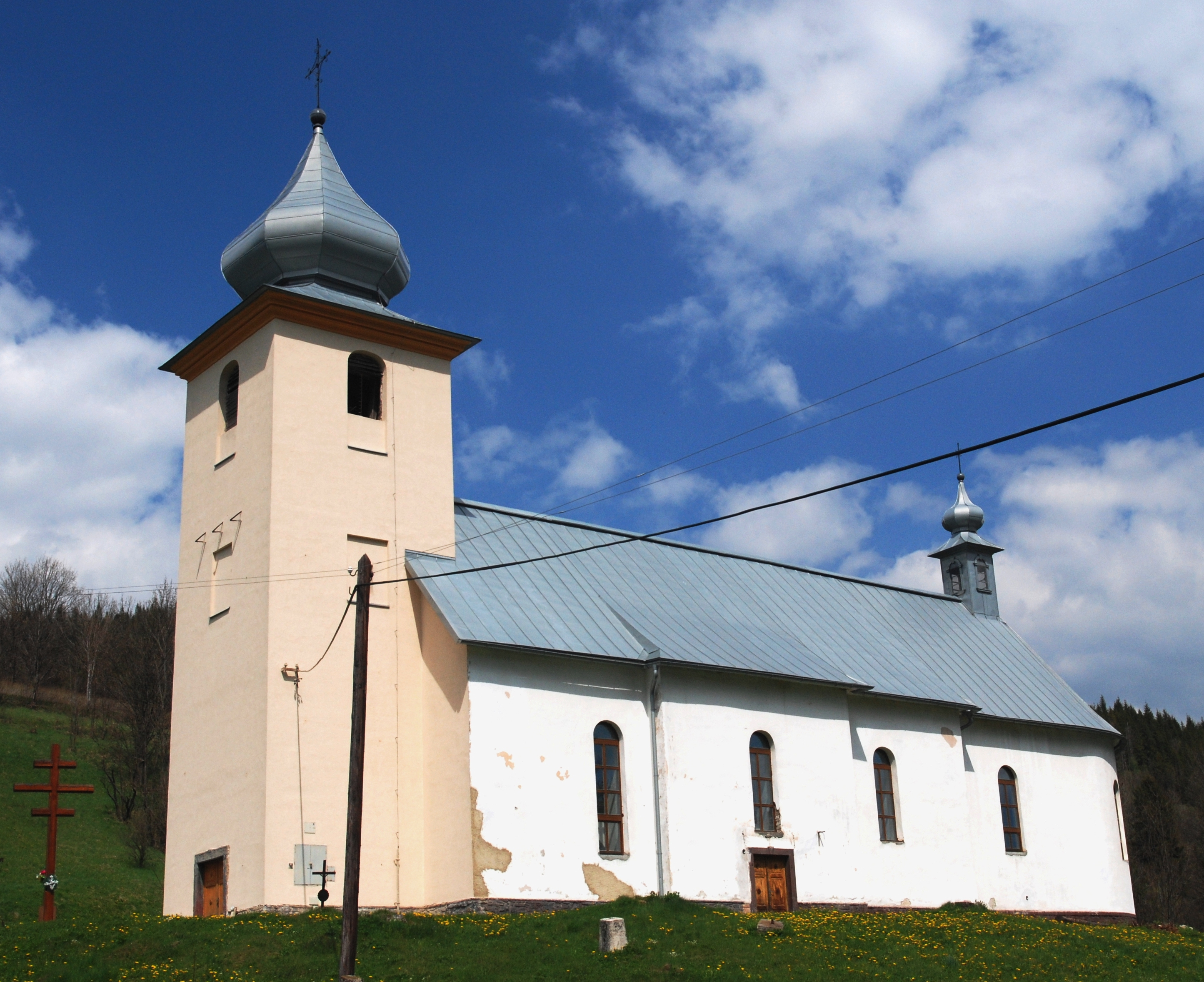 Church in Osturňa, Slovakia